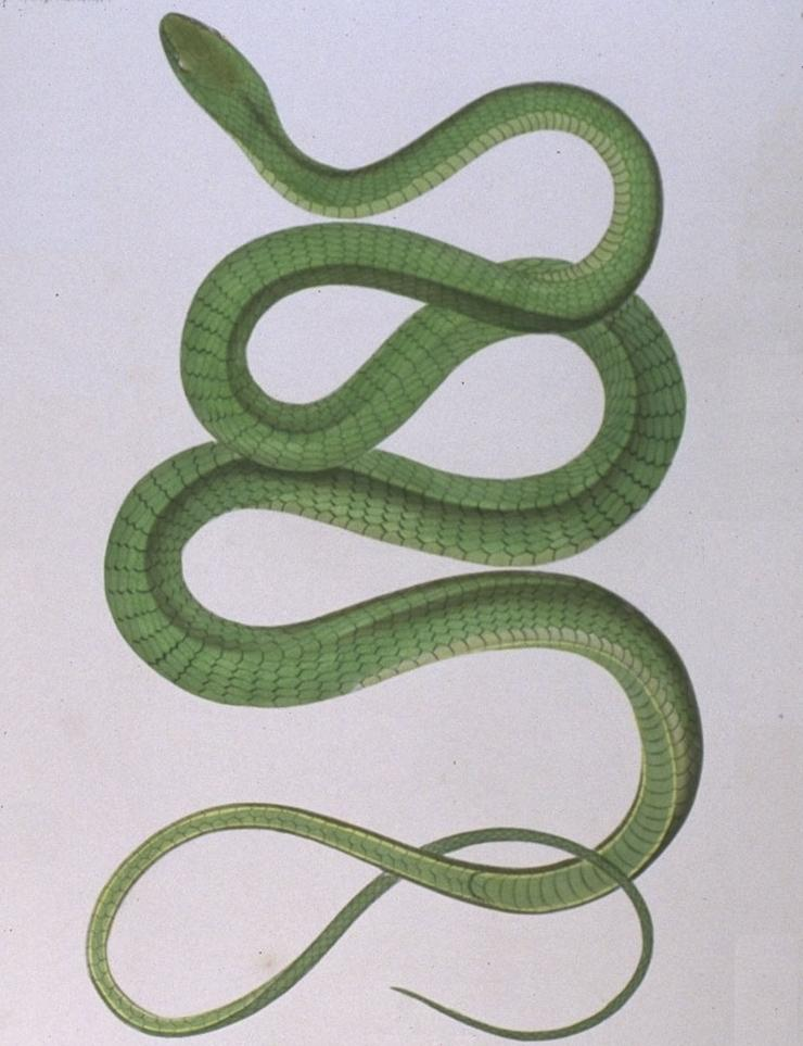 Dendrophis prasimus, syn. of Dendrelaphis punctulata